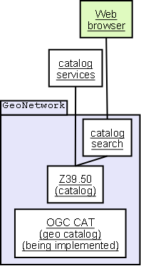 GeoNetwork interface/service sketch.